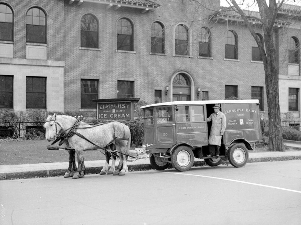 We see the delivery van pulled by two horses of the creamery "Elmhurst Dairy" in front of the business located at 7460 Upper Lachine Road in Montreal.